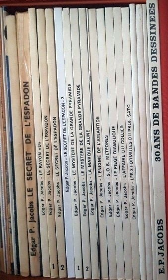 Blake et Mortimer Lombard books 60 - 70 - 80.